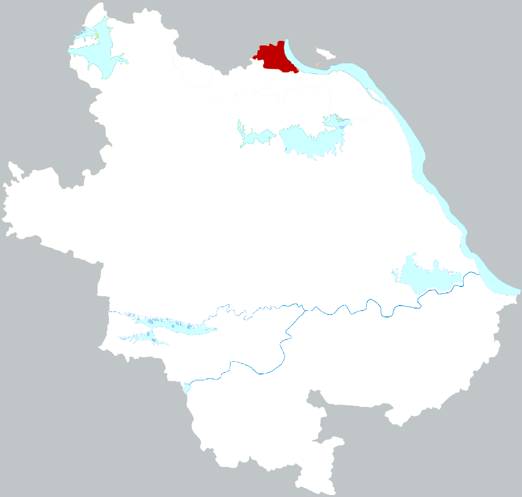 Location of Huangshigang district in Huangshi city, China